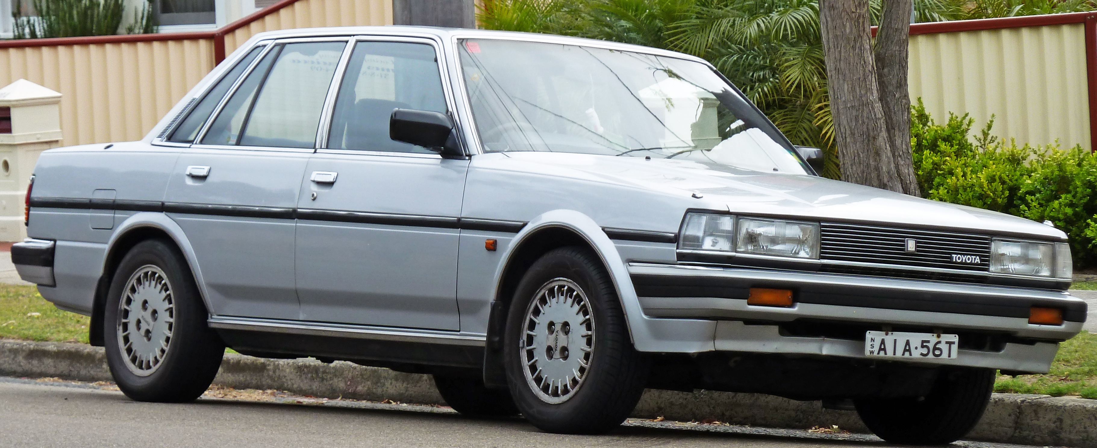 1985 Toyota Cressida (MX73) GLX-i sedan. Photographed in Sans Souci, New South Wales, Australia.